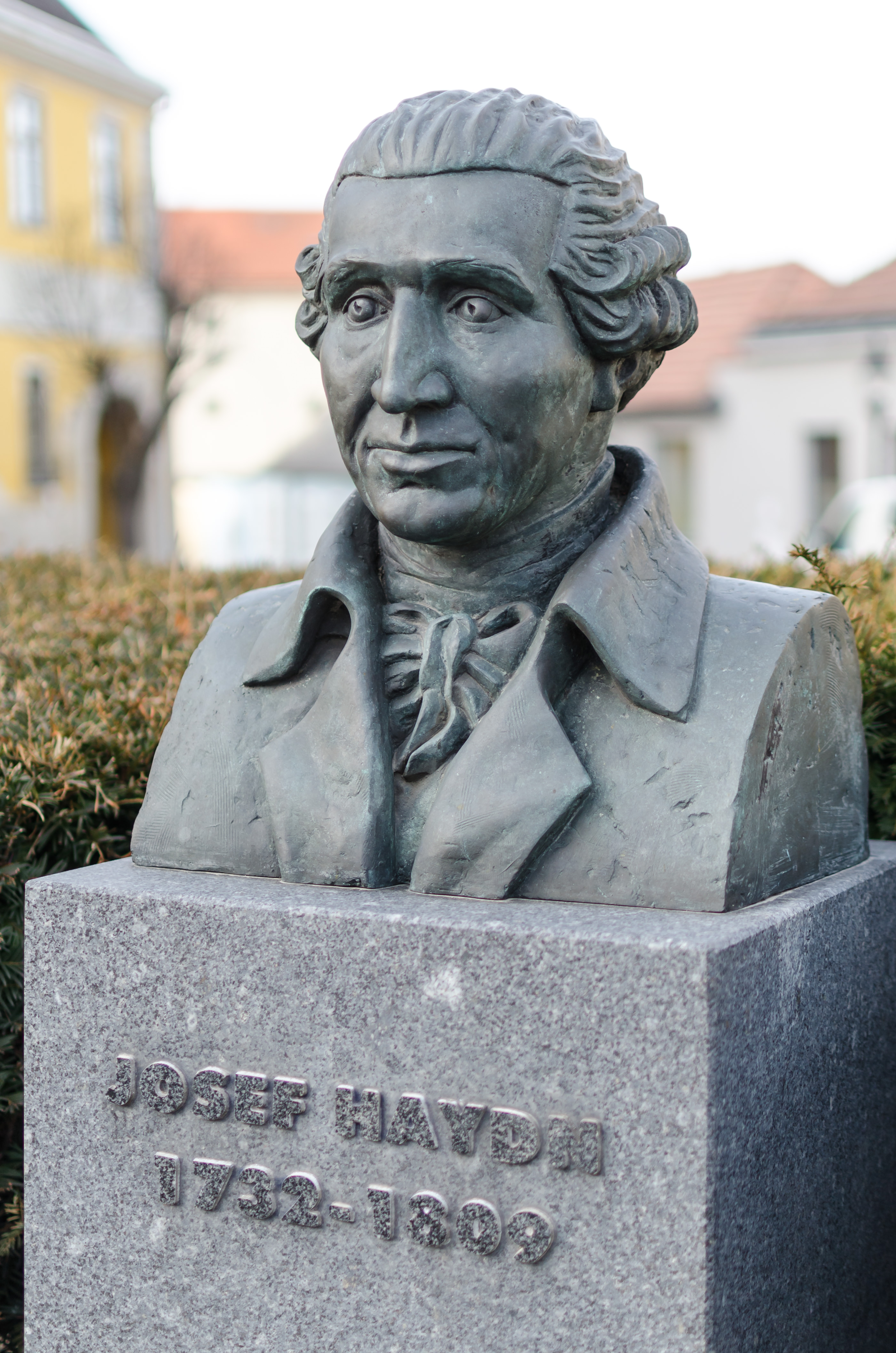 Bust of Joseph Haydn